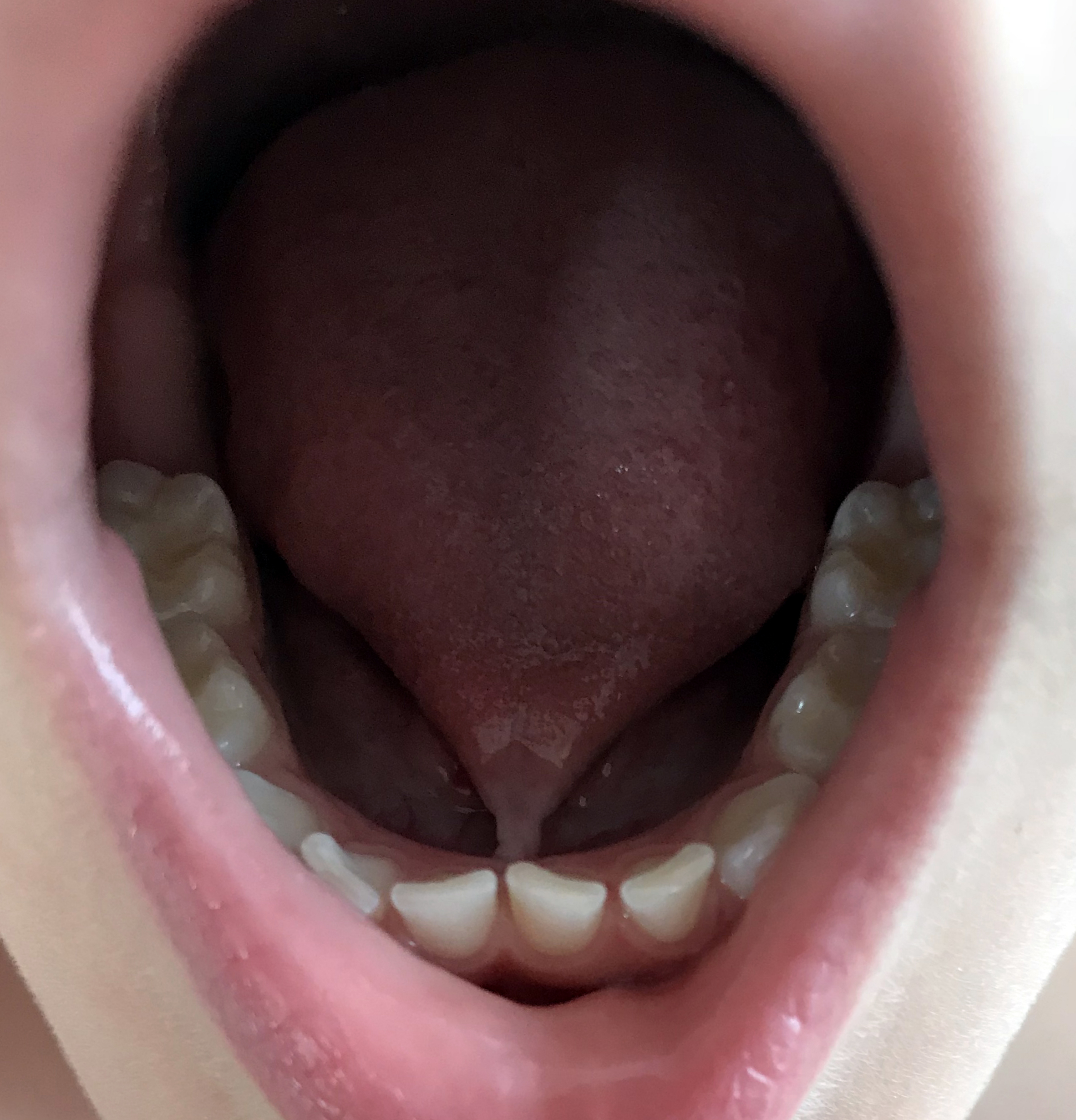 Ankyloglossia (tongue-tie) due to a short lingual frenulum, in a 4 years old child.